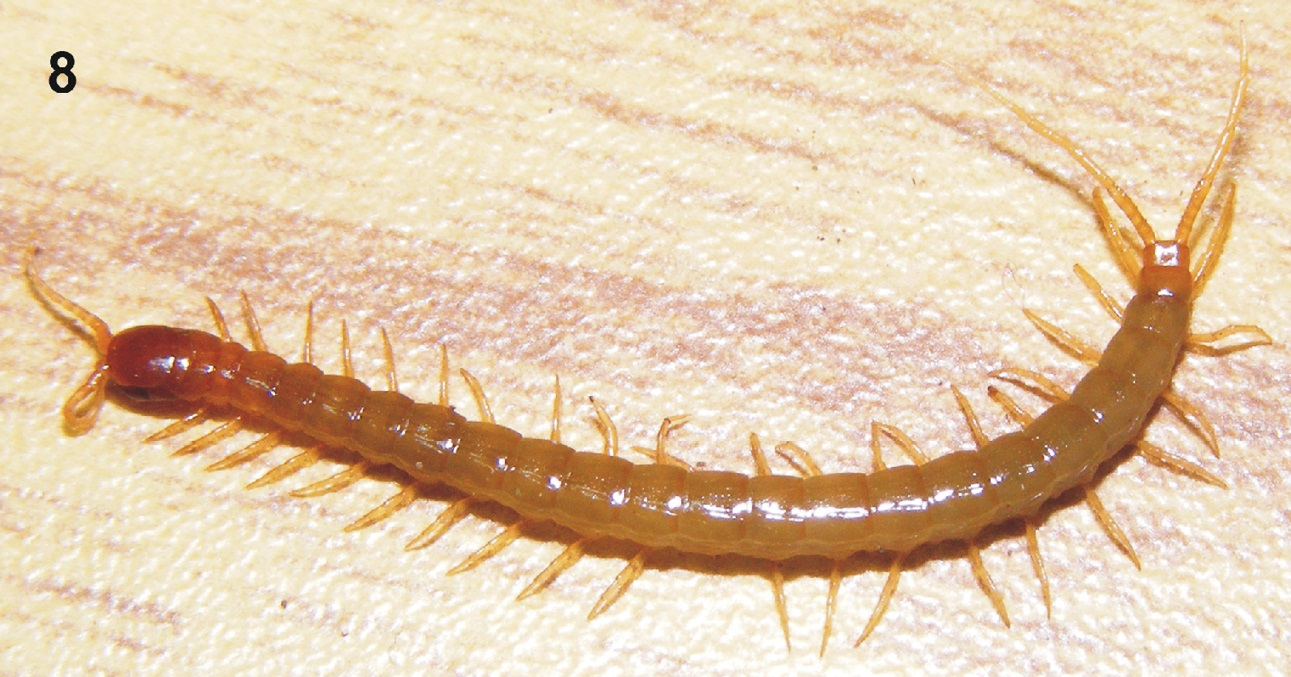 Tidops nisargani (Scolopendromorpha, Scolopocryptopidae), from the state of Bahia, Brazil.